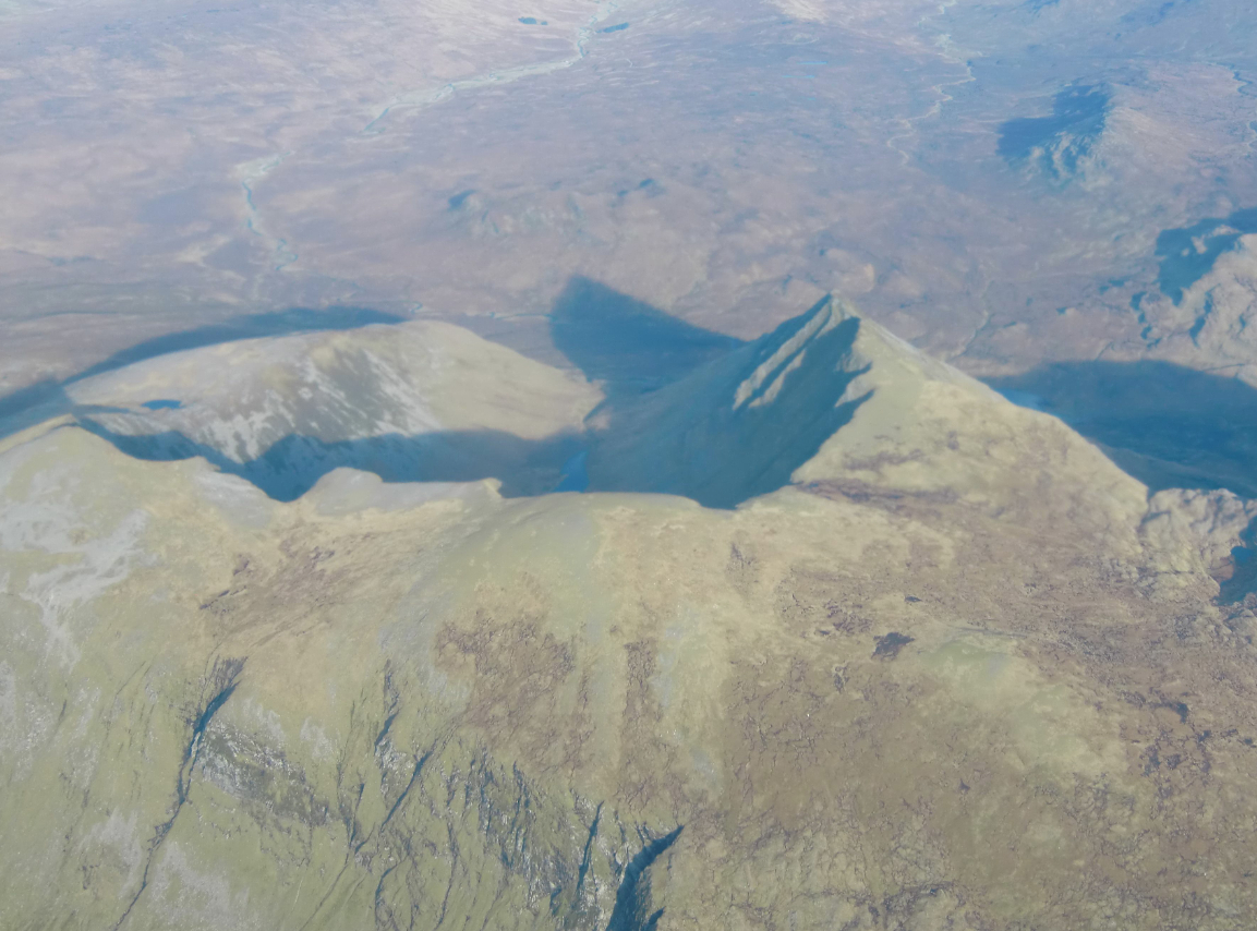 The summit crags of Seana Bhraigh, Ross, Scotland